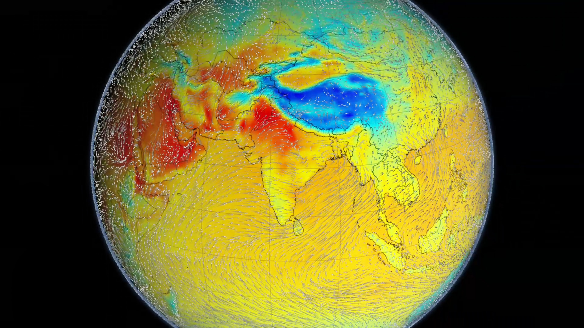 "A colorful, data-driven view into how monsoons work."